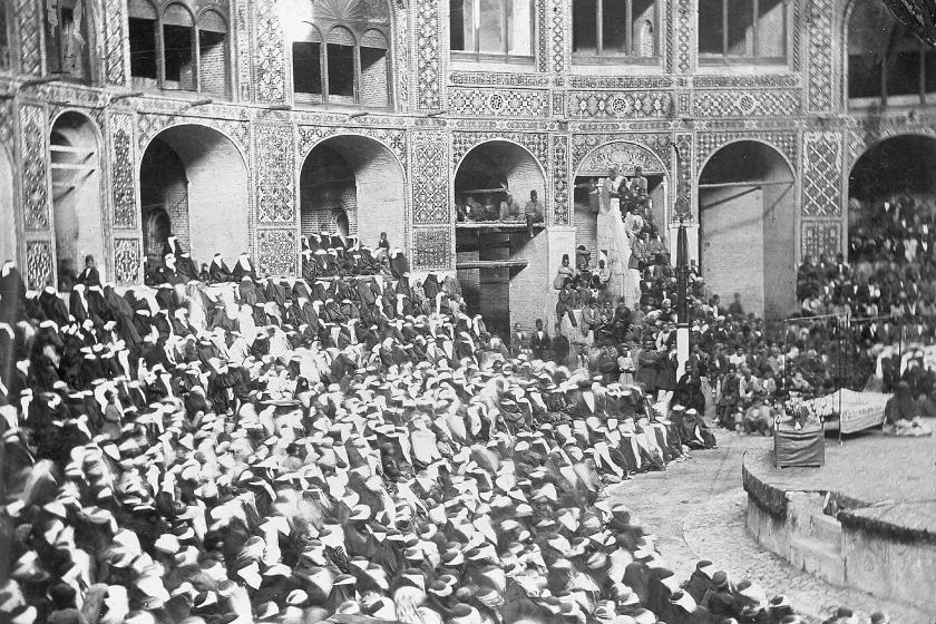 Qajar Era, Female Spectators at Tekyeh Dowlat, Tehran, Iran